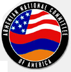 The image is used to identify the organization Armenian American, a subject of public interest. The significance of the logo is to help the reader identify the organization, assure the readers that they have reached the right article containing critical commentary about the organization, and illustrate the organization's intended branding message in a way that words alone could not convey.